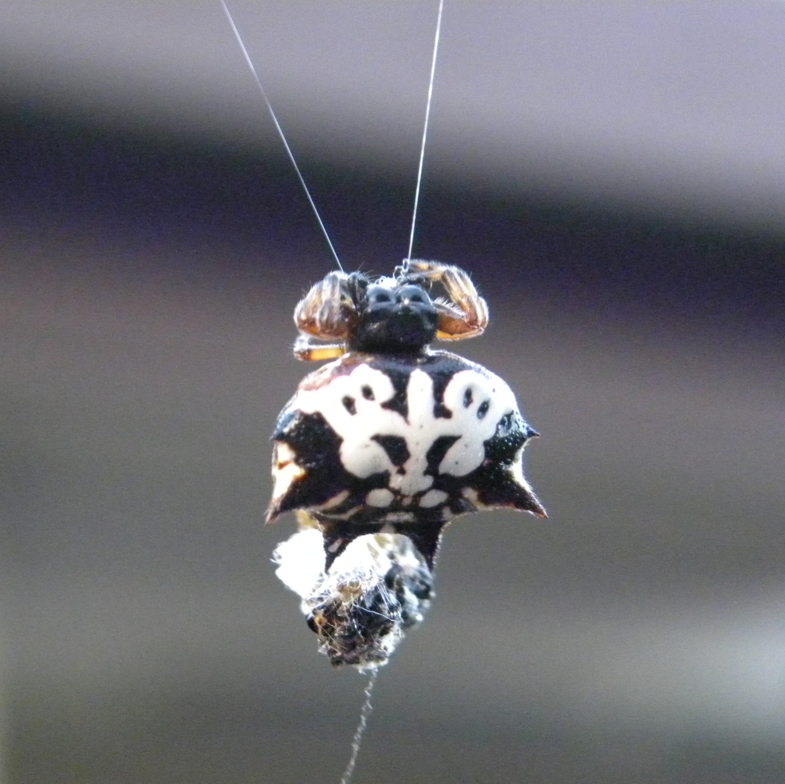 Minax or Jewelled spider, also known as Christmas spider, six spined spider, and spiny spiders. Austracantha (Gasteracantha) minax (female) - these are an orb weaver spider. This one was photographed in Central Queensland, Australia